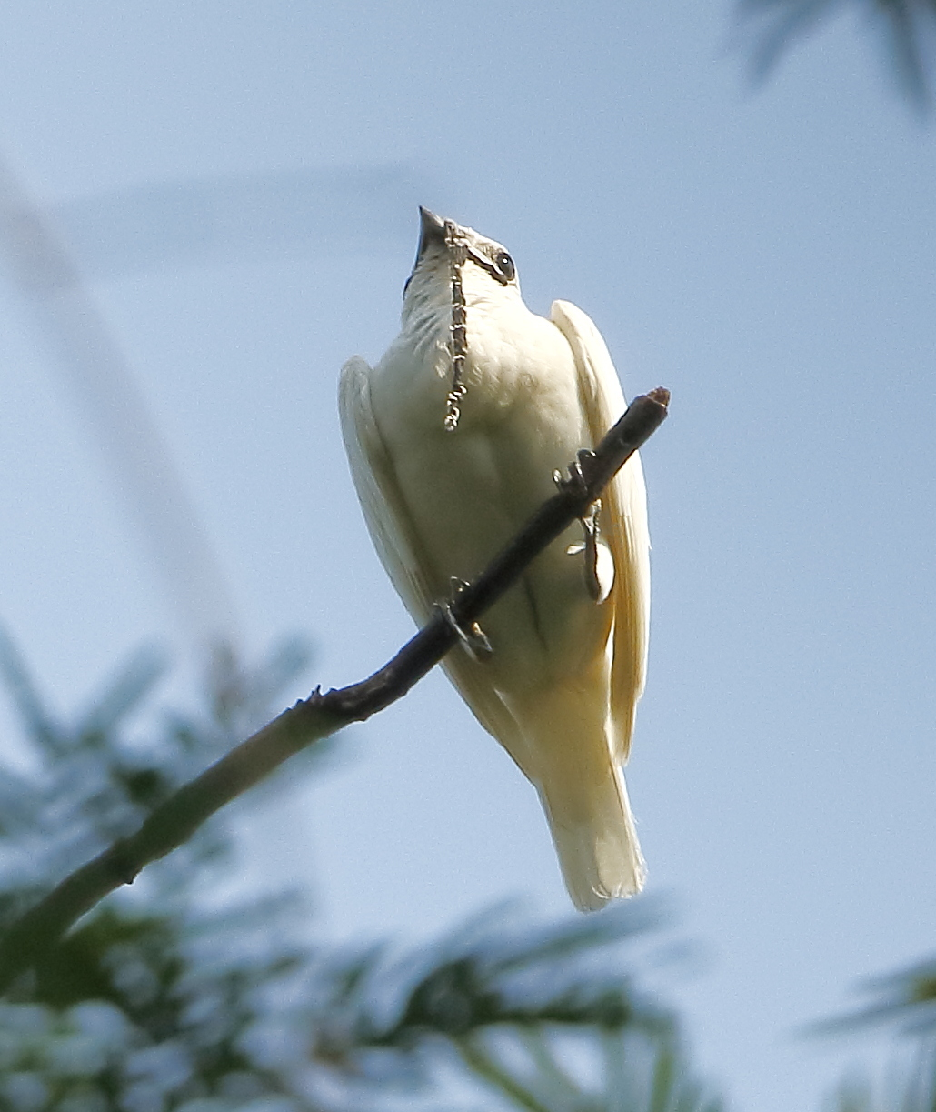 White bellbird at Carajás National Forest, Pará, Brasil